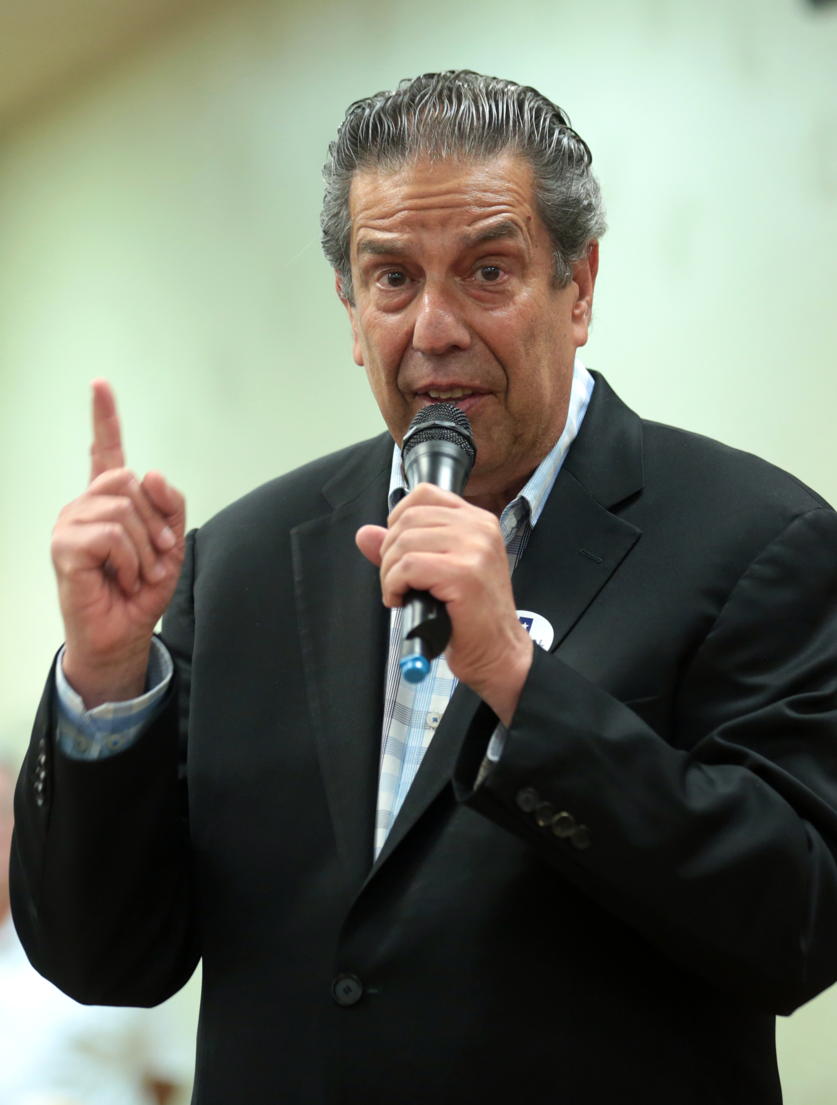 Jon Bauman speaking at an event in Surprise, Arizona.